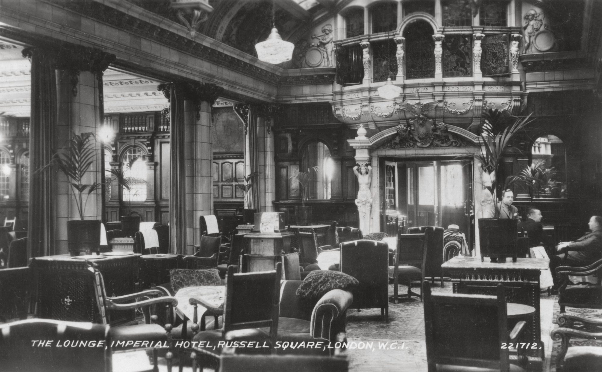 The Lounge, Imperial Hotel, Russell Square, London, about 1915.